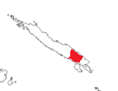 Image showing the extension of the cheke holo language on the island of Santa Isabel